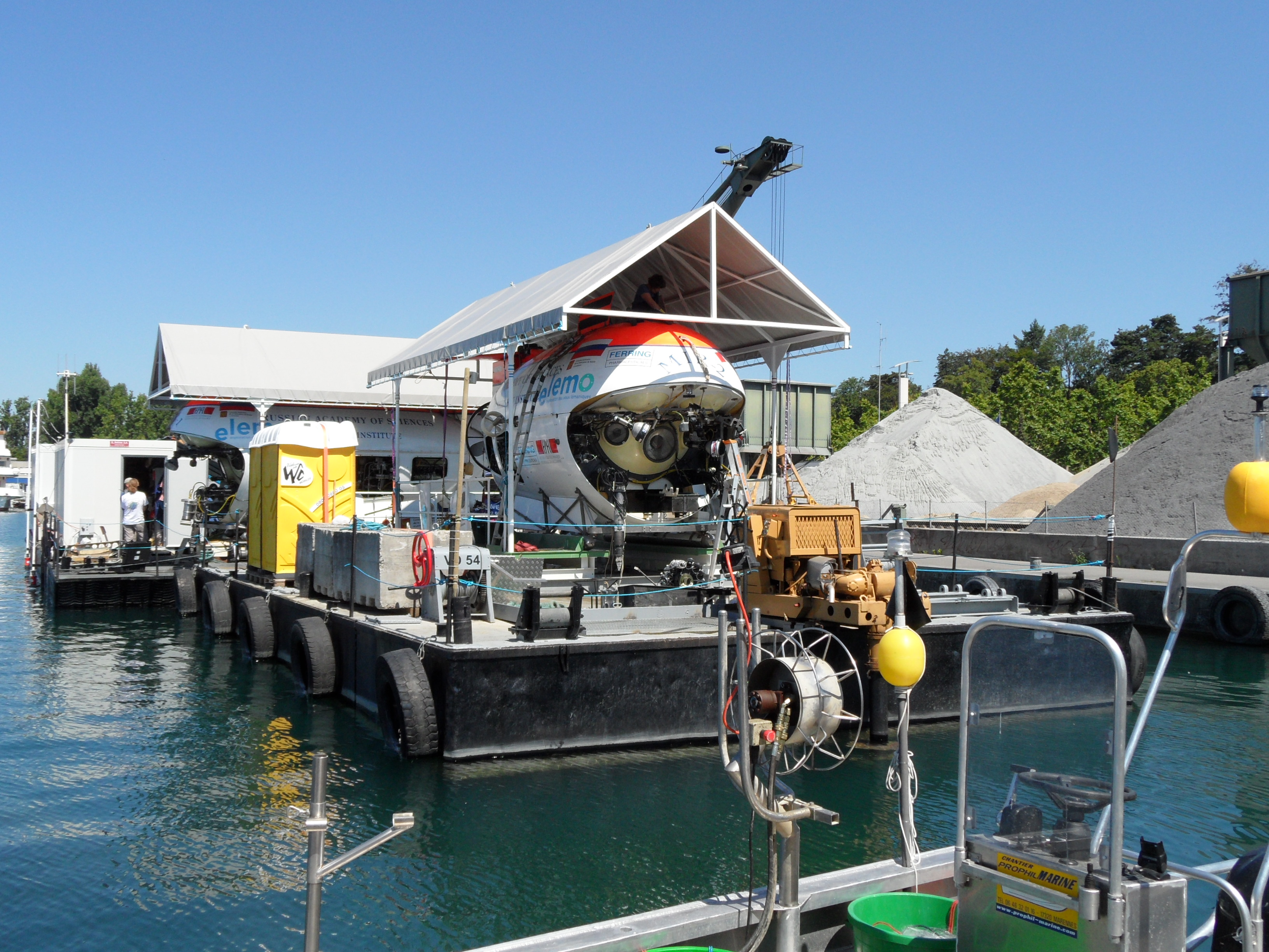 Russian submersibles "Mir 1" (left) and "Mir 2" (right) in the port of Lausanne-Ouchy (quai des Chalands) at Lake Geneva, Switzerland, July 2011, taking part in the project "Elemo" (Exploration des eaux lémaniques).